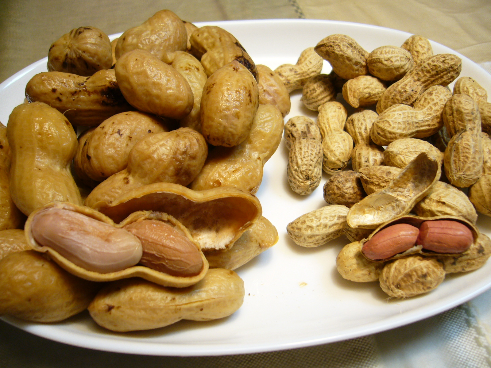 boil-big-peanuts&normal-peanuts,shioyude chiba big peanuts,katori-city,japan